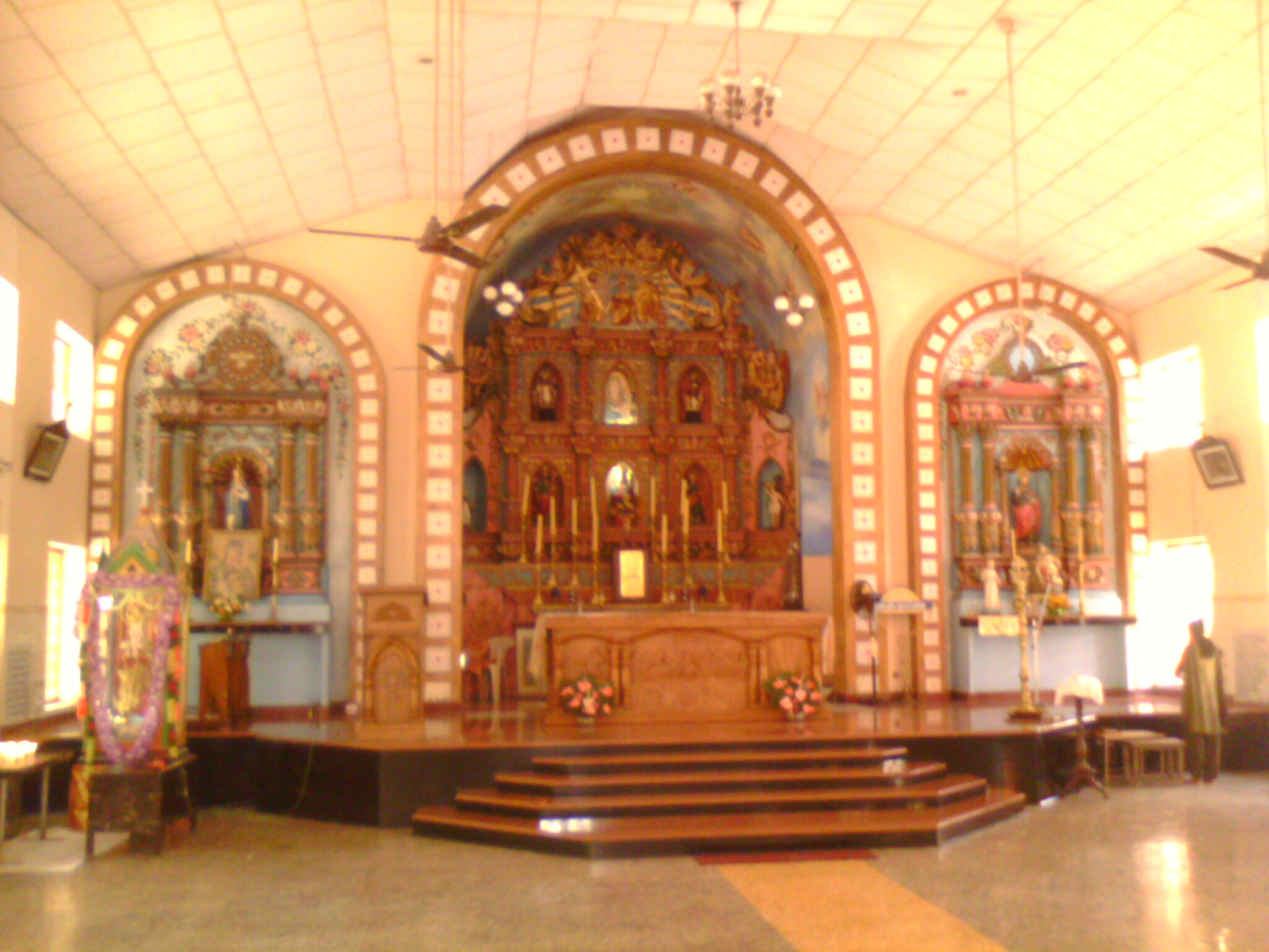 pallipurampalli alapuzha